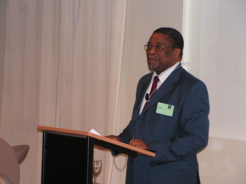 Moeletsi Mbeki during the ECAS Conference in Leiden (The Netherlands), July 2007